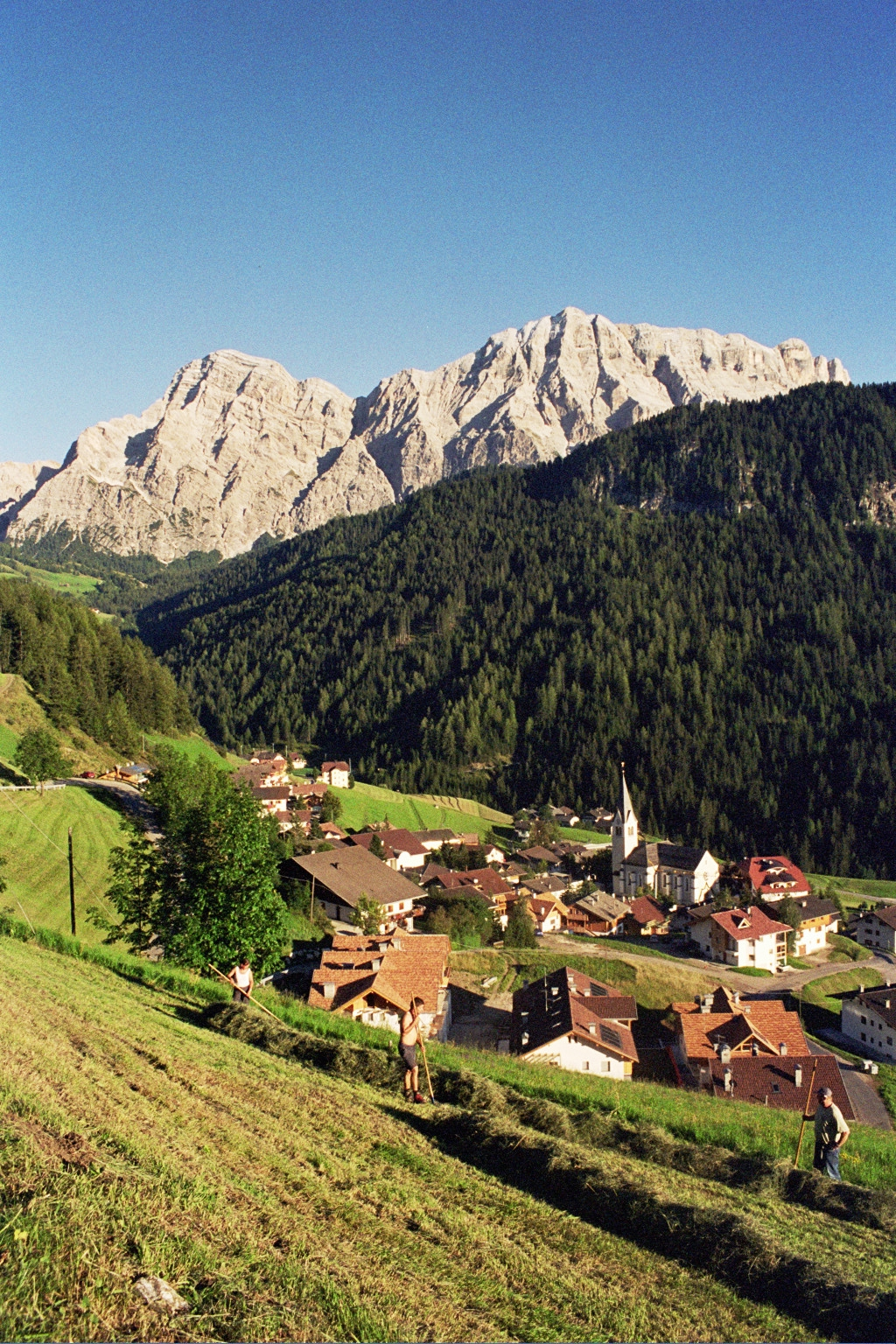 La Val (Wengen (Südtirol)) in South Tyrol